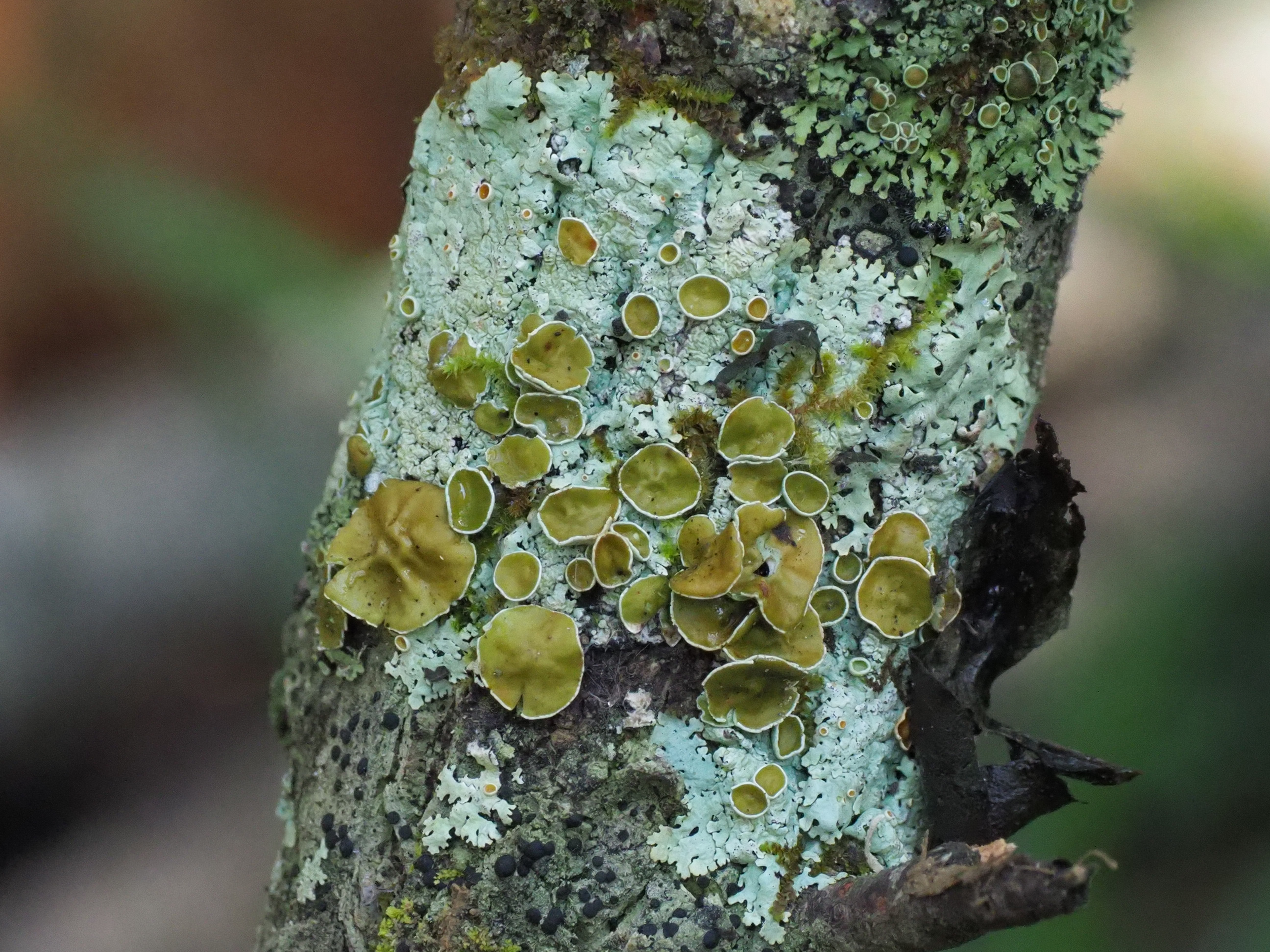 The lichen Myelochroa galbina, found in Perry Lakes Park, Perry Co., Alabama, USA.Notes: "Based on chemical features: medulla pale yellow on top K+y KC+o"